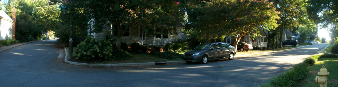 North Charlotte's Neighborhood in Highland Mill Village